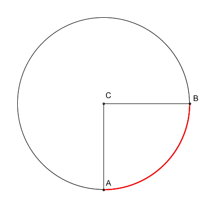 This file illustrate the arc of a circunference. I did this file in Macromedia Fireworks